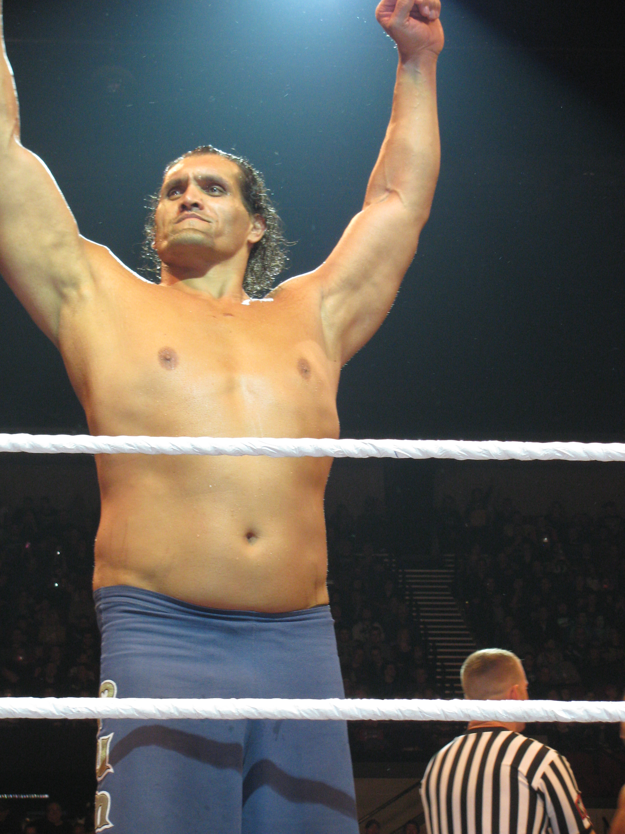 The Great Khali @ Adelaide, South Australia WWE house show on the 29th of July '13